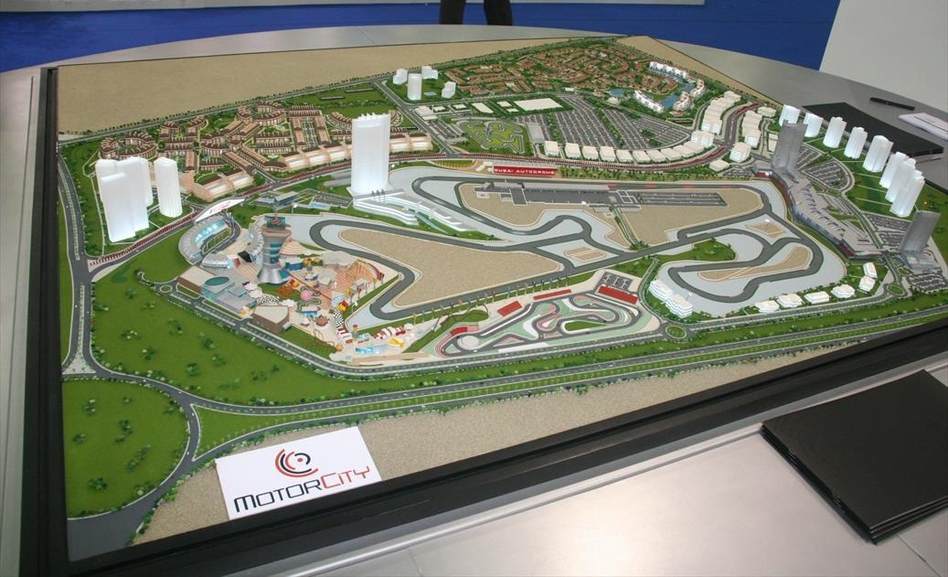 This is a photo showing a model of MotorCity in Dubai, United Arab Emirates on 8 May 2007. The model was at the Cityscape Abu Dhabi 2007.